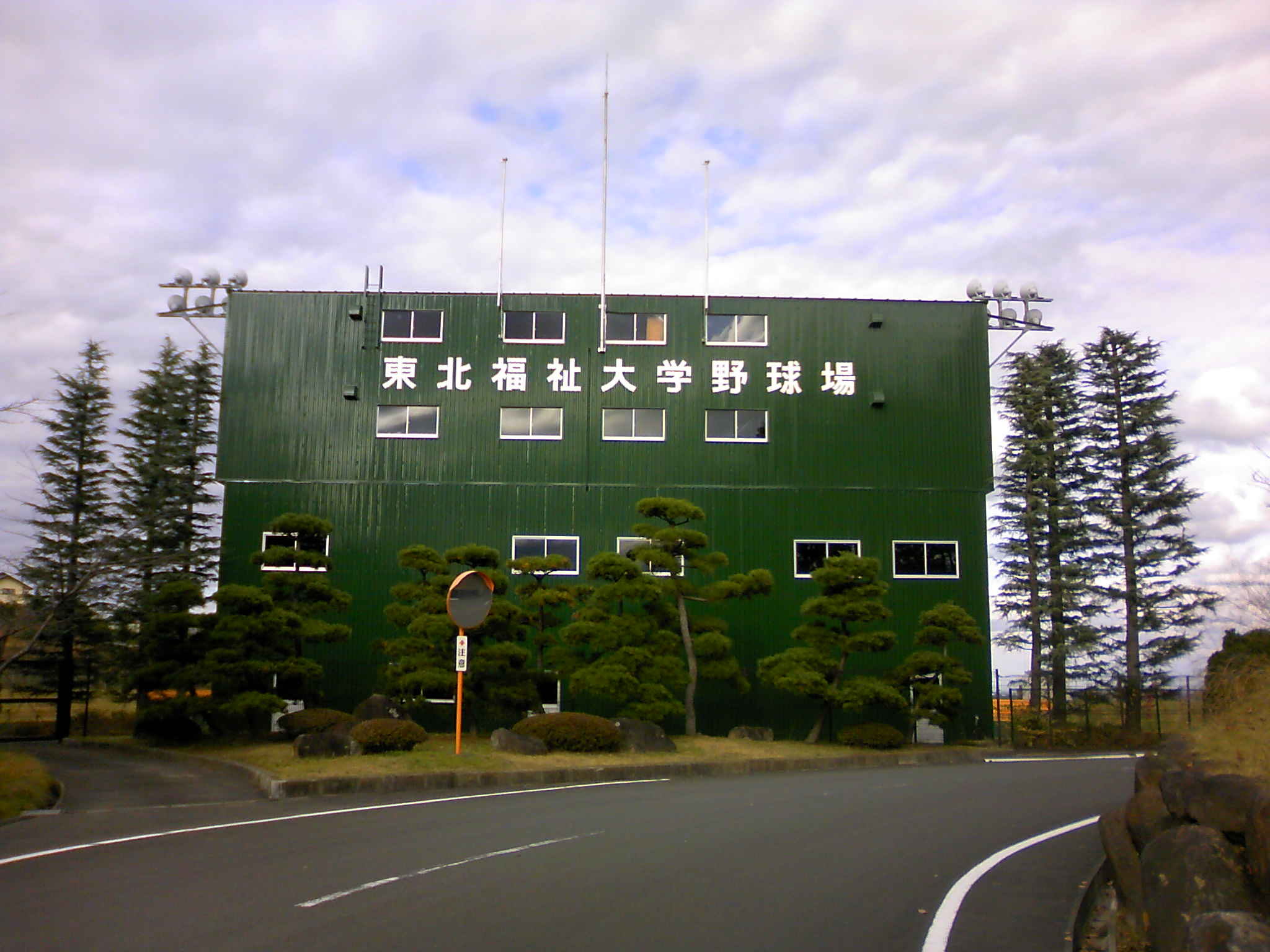 Tohoku Fukushi University's Baseball Stadium